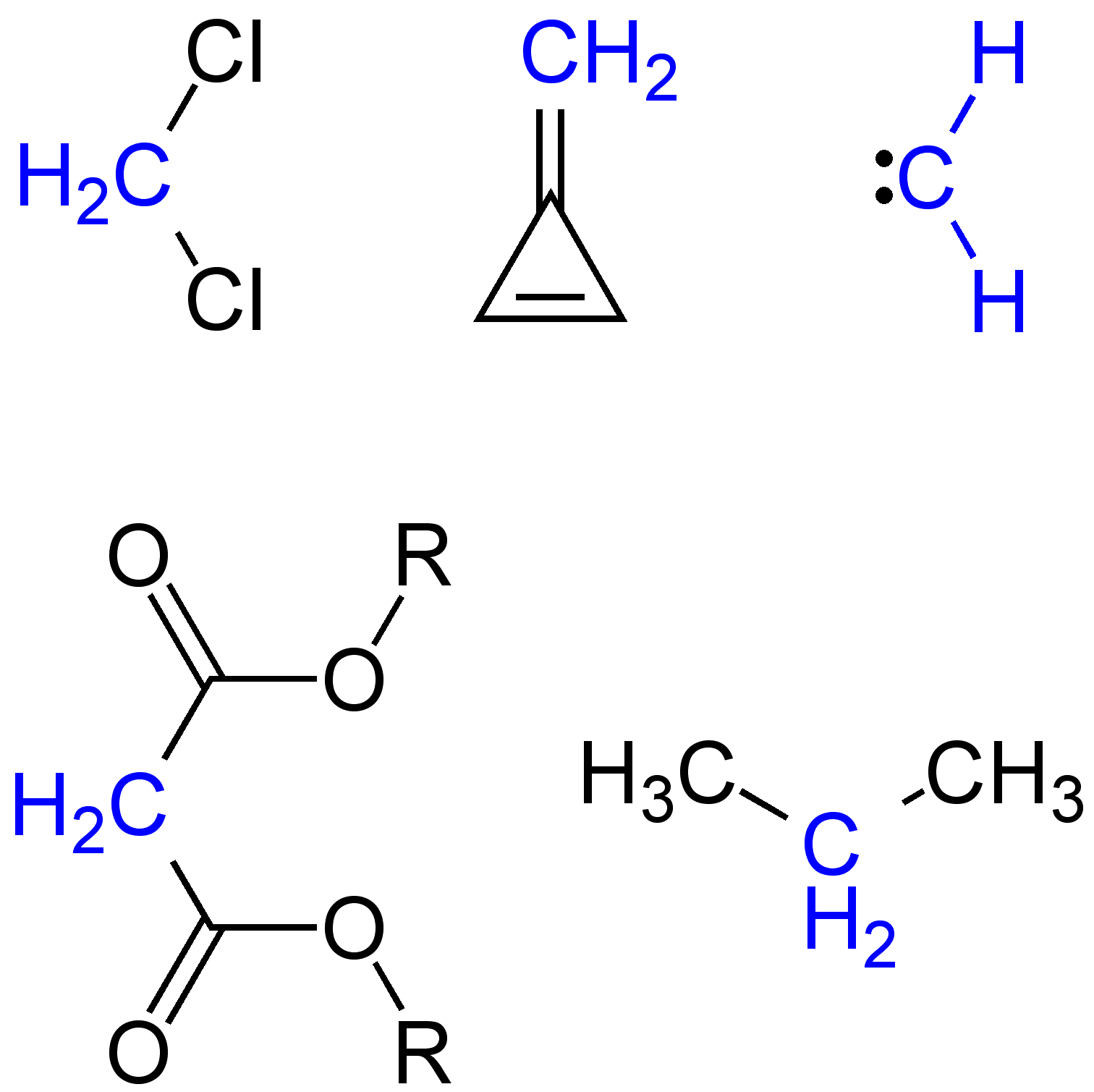 Methylene_Group_General_Formulae